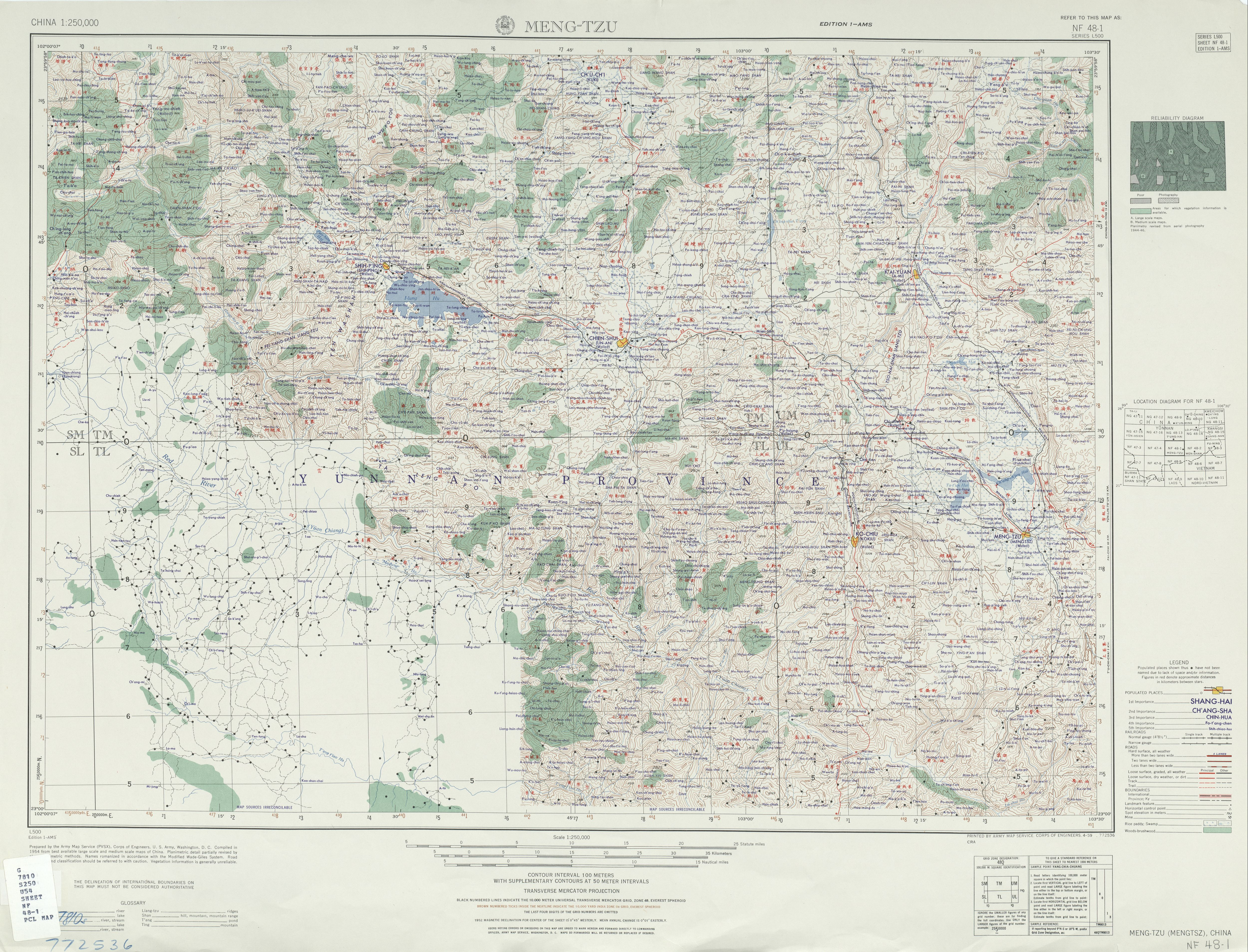 Map of Mengzi (Meng-tzu, Mengtsz) area, Yunnan